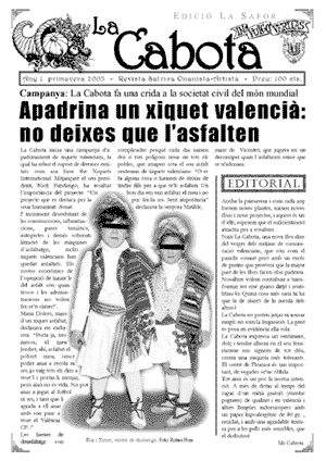 Cover for the first issue of Valencian satirical magazine La Cabota